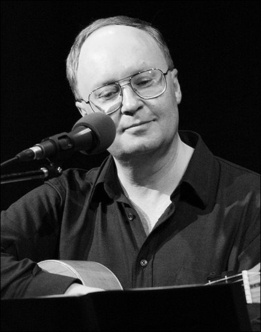 Photo of Mikhail Scherbakov